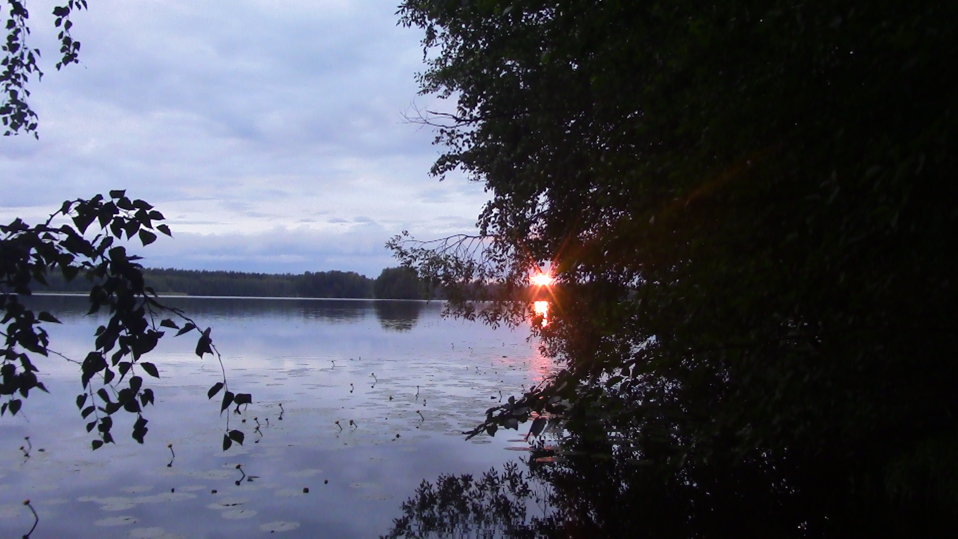 Valvatus lake seen from Valvatus camping center in Joroinen.